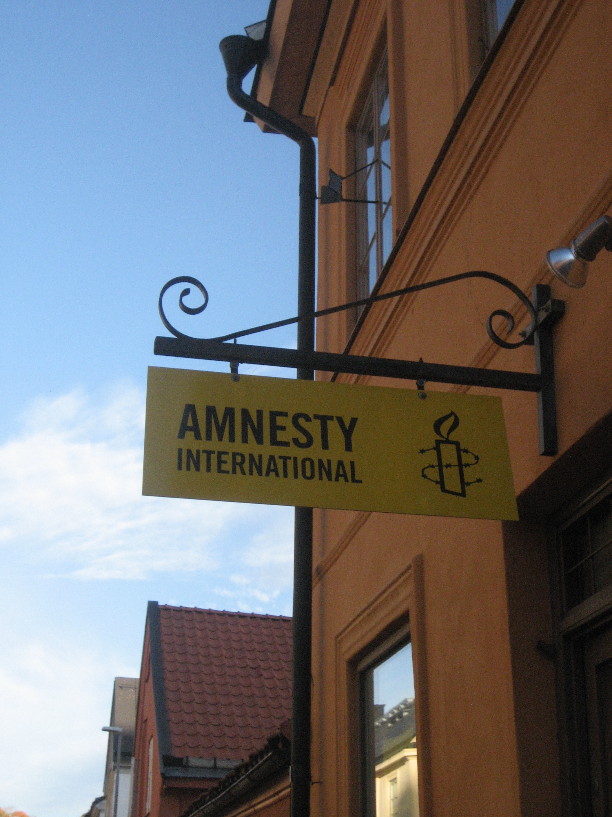 Office of Amnesty International, Uppsala (Sweden)